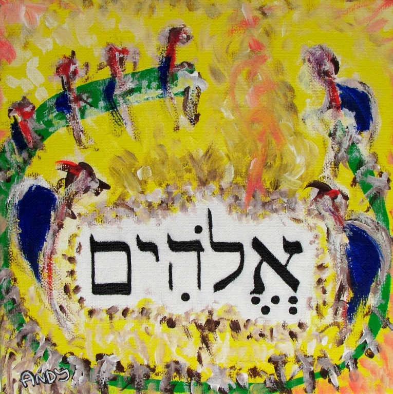 One of 22 paintings made by Andy Loos. Christian tribute to Jewish.